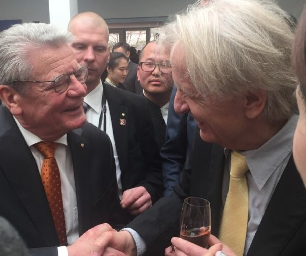 Joachim Gauck and Uwe Kräuter in Beijing